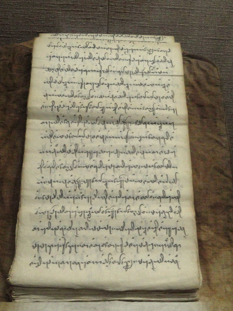 De'ang scripture, written in the Dai script. Manuscripts / writing systems in the Yunnan Nationalities Museum, Kunming, Yunnan, China.